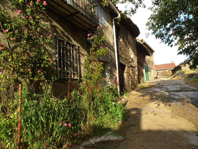 Street in El Cardoso de la Sierra, Guadalajara, Spain